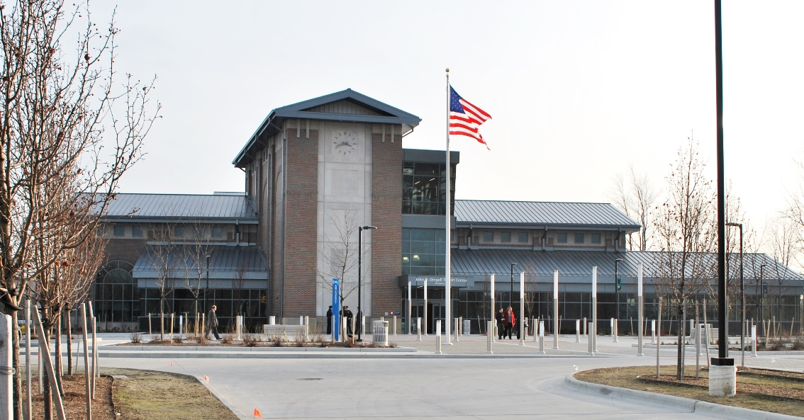 Exterior view of the John D. Dingell Transit Center in Dearborn, Michigan